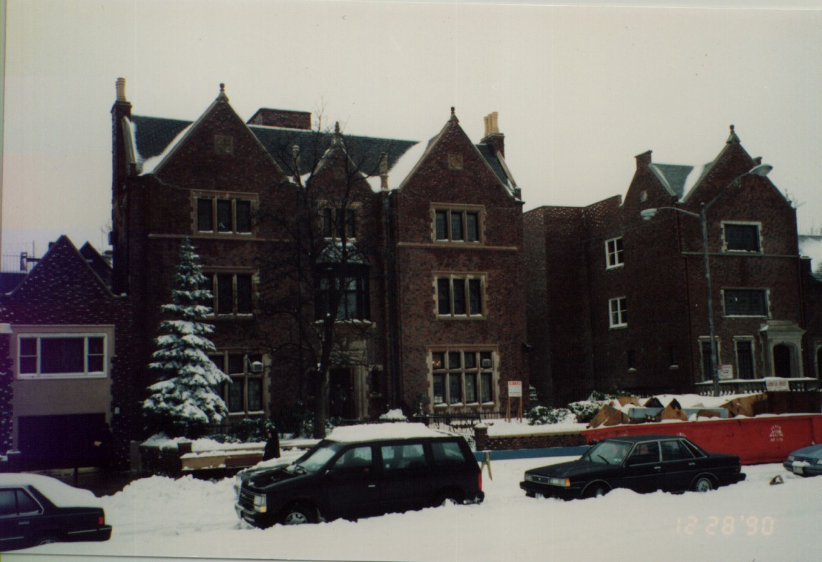 770 Eastern Parkway, Brooklyn, NY